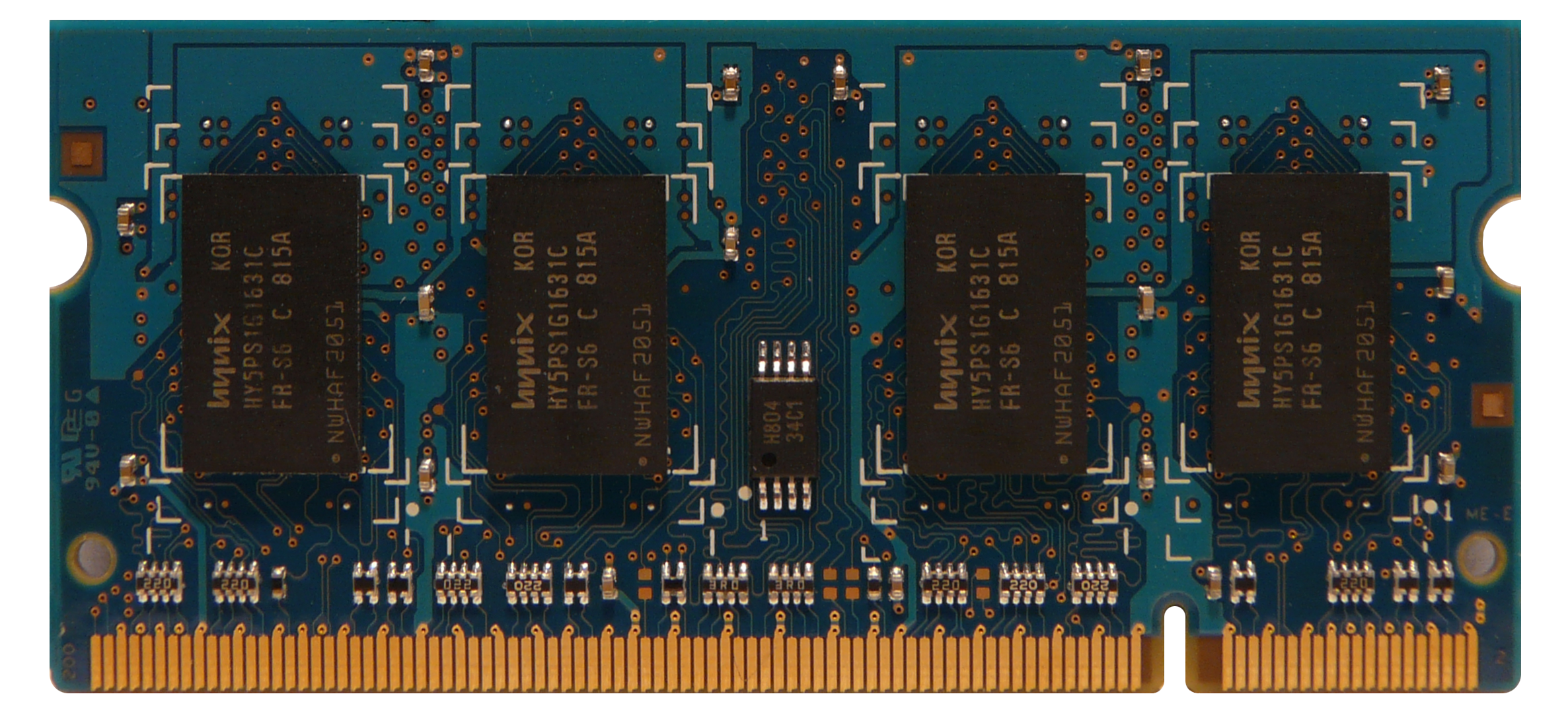 1 GB DDR2 SO-DIMM Ram memory